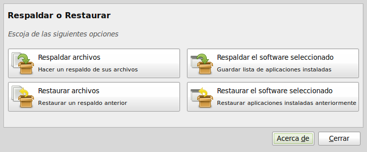 Linux mint - mintBackup software Screenshot